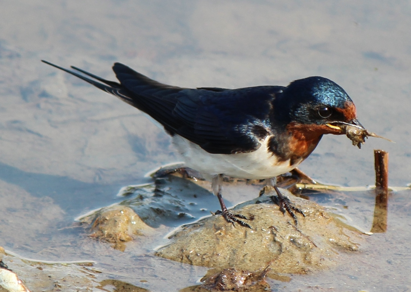 Hirundo rustica gutturalis (Barn Swallow) in Japan